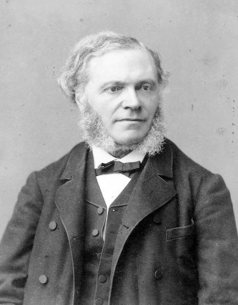 Belgian / French composer César Franck (1822-1890) photographed by Pierre Petit (1832-1909).